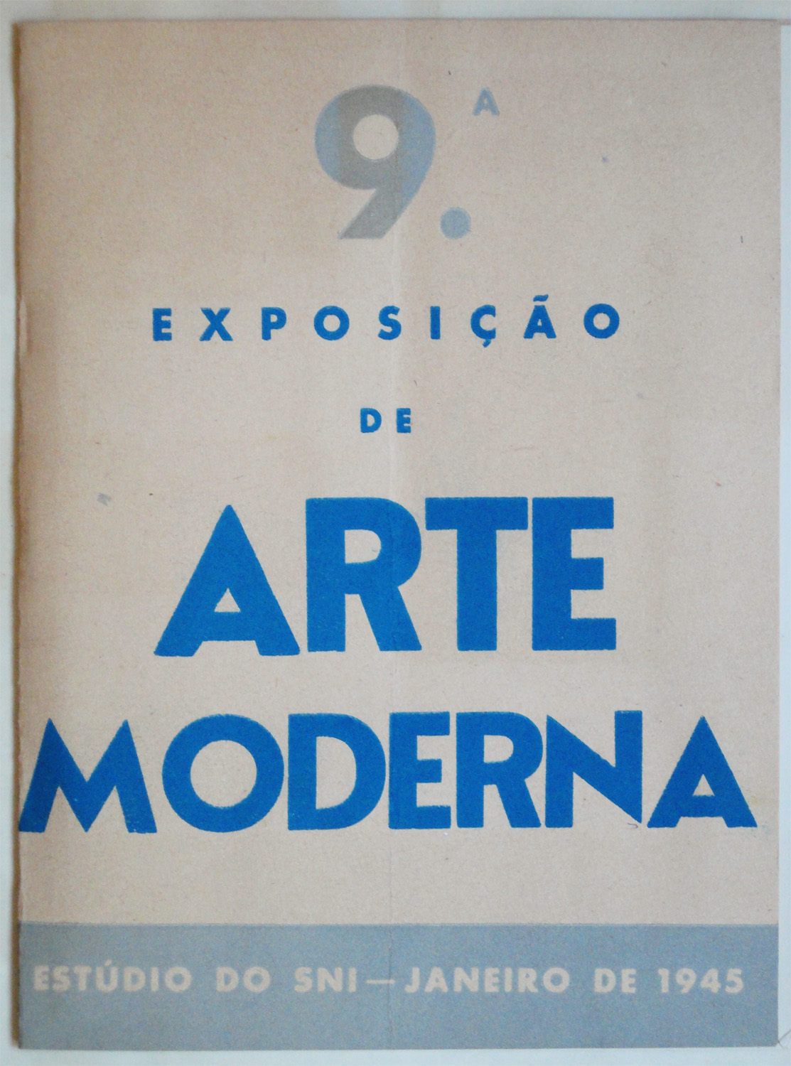 9th SPN/SNI Exhibition, 1945